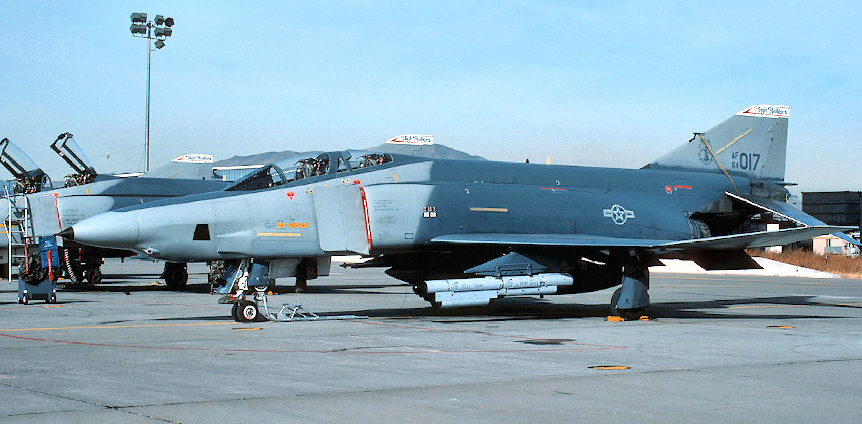 192d Reconnaissance Squadron RF-4C 64-017